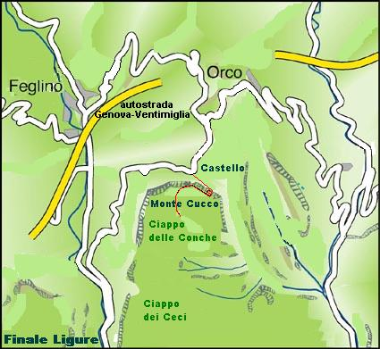 From Finale Ligure take the road for Orco Feglino, when it comes to the north of Mount Cucco, a quarry near the town Castle and leave the car. From road to Ciappo of Conche there is a distance of 600 meters and is covered on foot in 30 minutes. From the quarry continue on foot for short, about 100 meters south east, keeping an eye on a mule track (usually indicated by three red-backed stamps), which departs on the right and that goes directly along the north wall on Mount Cucco, for a drop of 80 meters. Arrived at the top of the path ends and continue on a path that goes down to the South and after you meet the short Ciappo of Conche, which is recognized to be a large plaza with a large tub about one square meter.